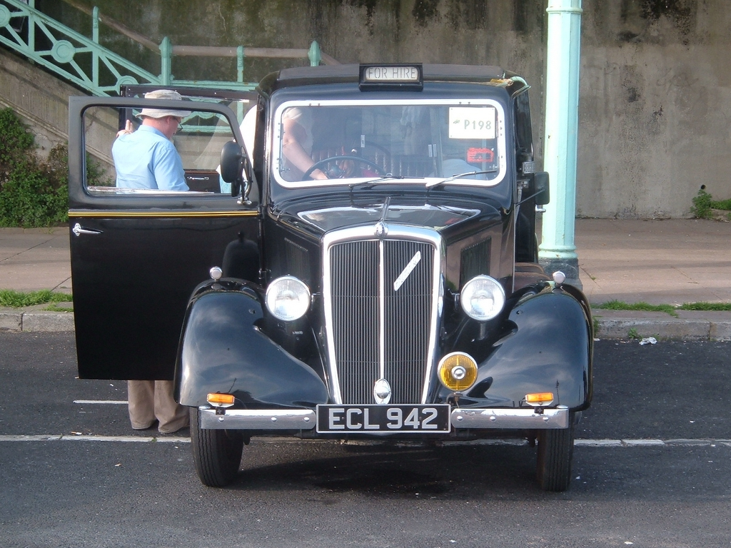 What do you mean "Marble Arch please". This is Brighton. OK then that will cost you £8-4shilling and 6pence!